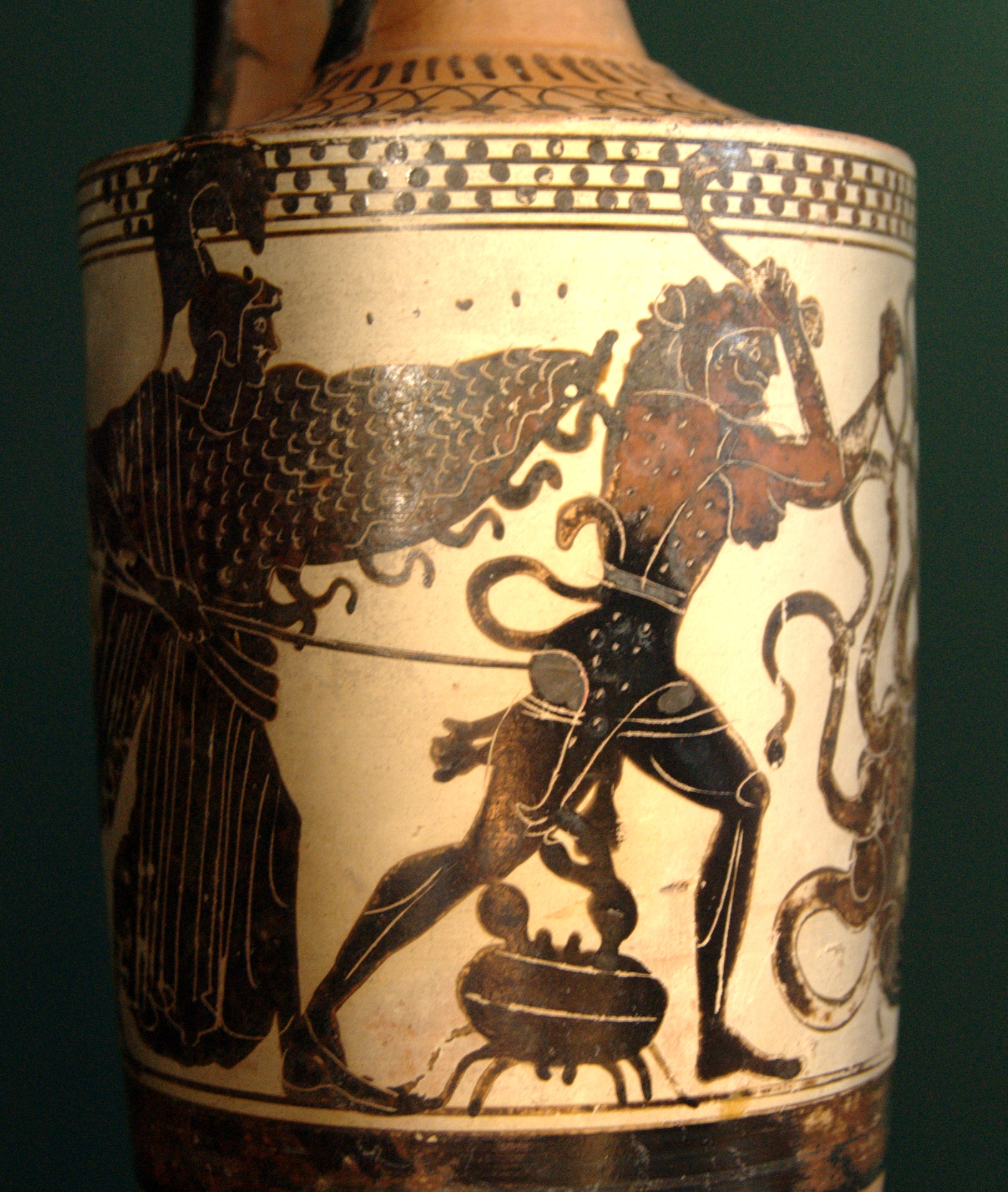 Athena, Heracles attacked by the crab and the Lenaean Hydra. White-ground Attic lekythos, ca. 500–475 BC.